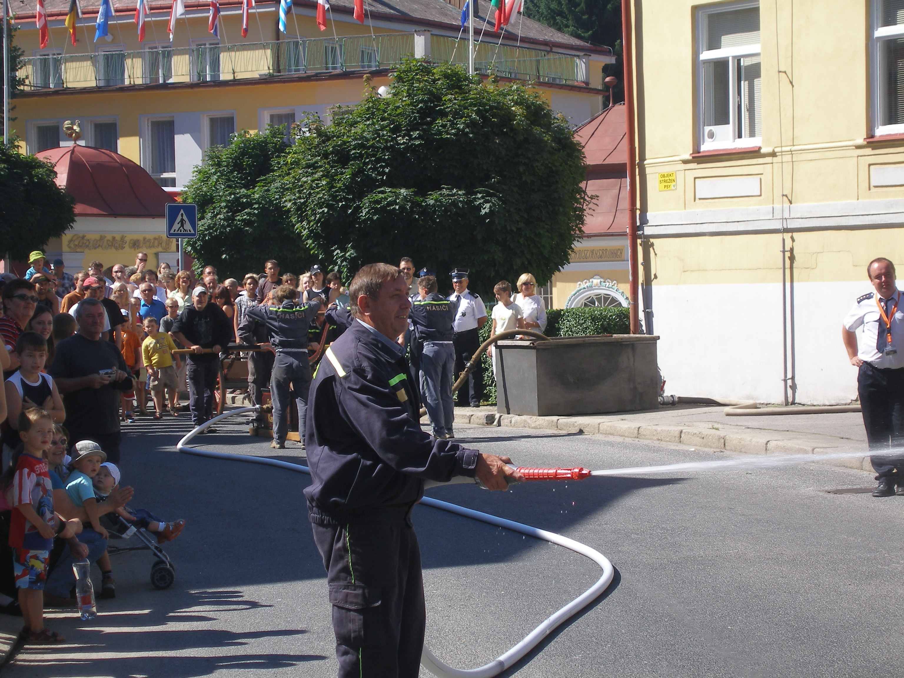 Fireman in Lazne Libverda